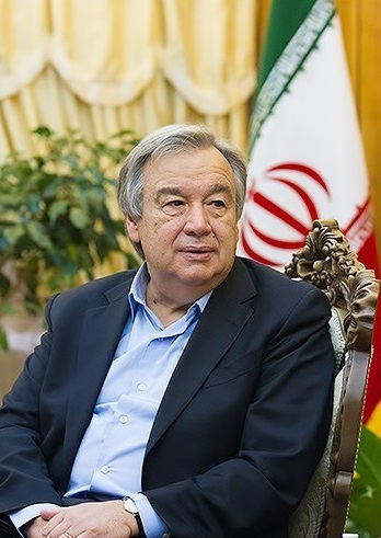 António Guterres in Tehran